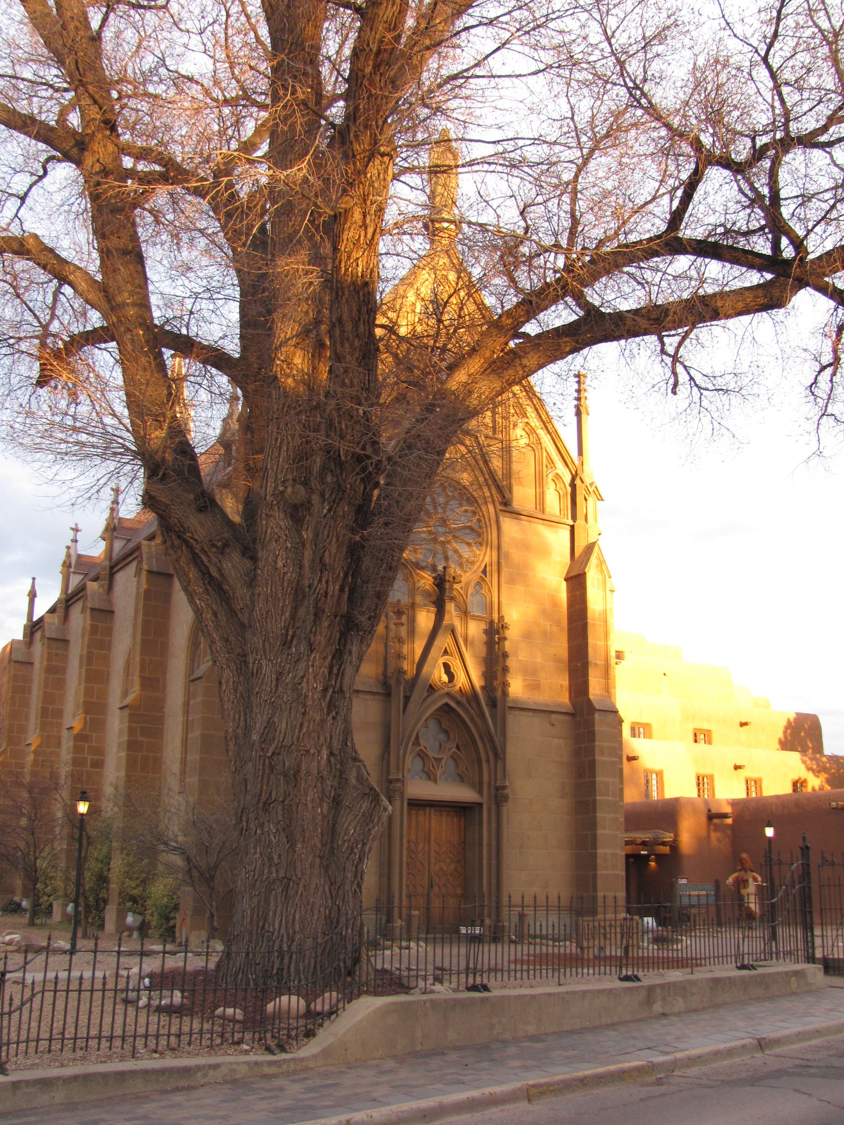 Loretto Chapel, Santa Fe New Mexico